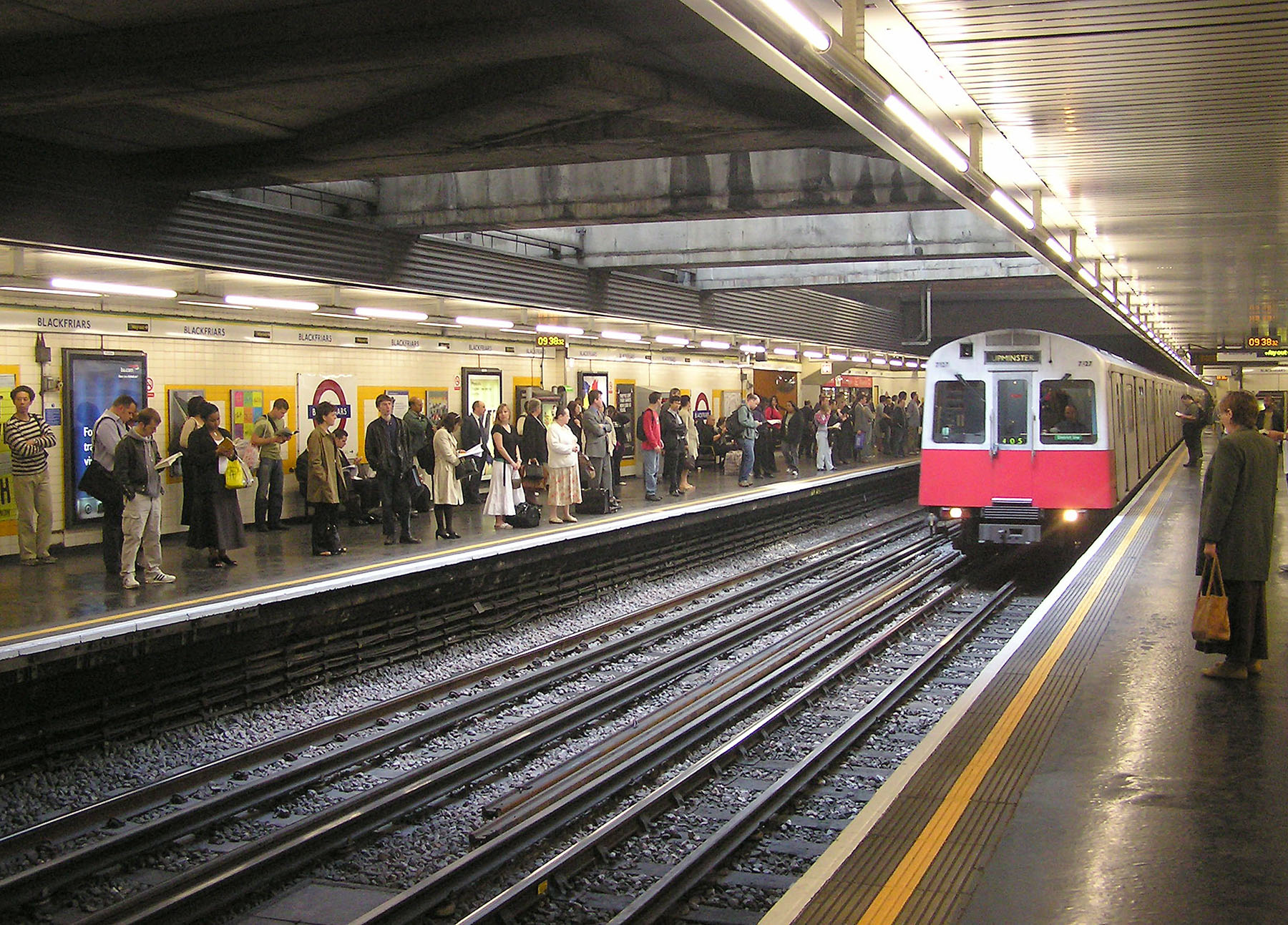 Blackfriars tube station with a District Line train arriving, London, England. Photographed by Adrian Pingstone in June 2005 and released to the public domain.